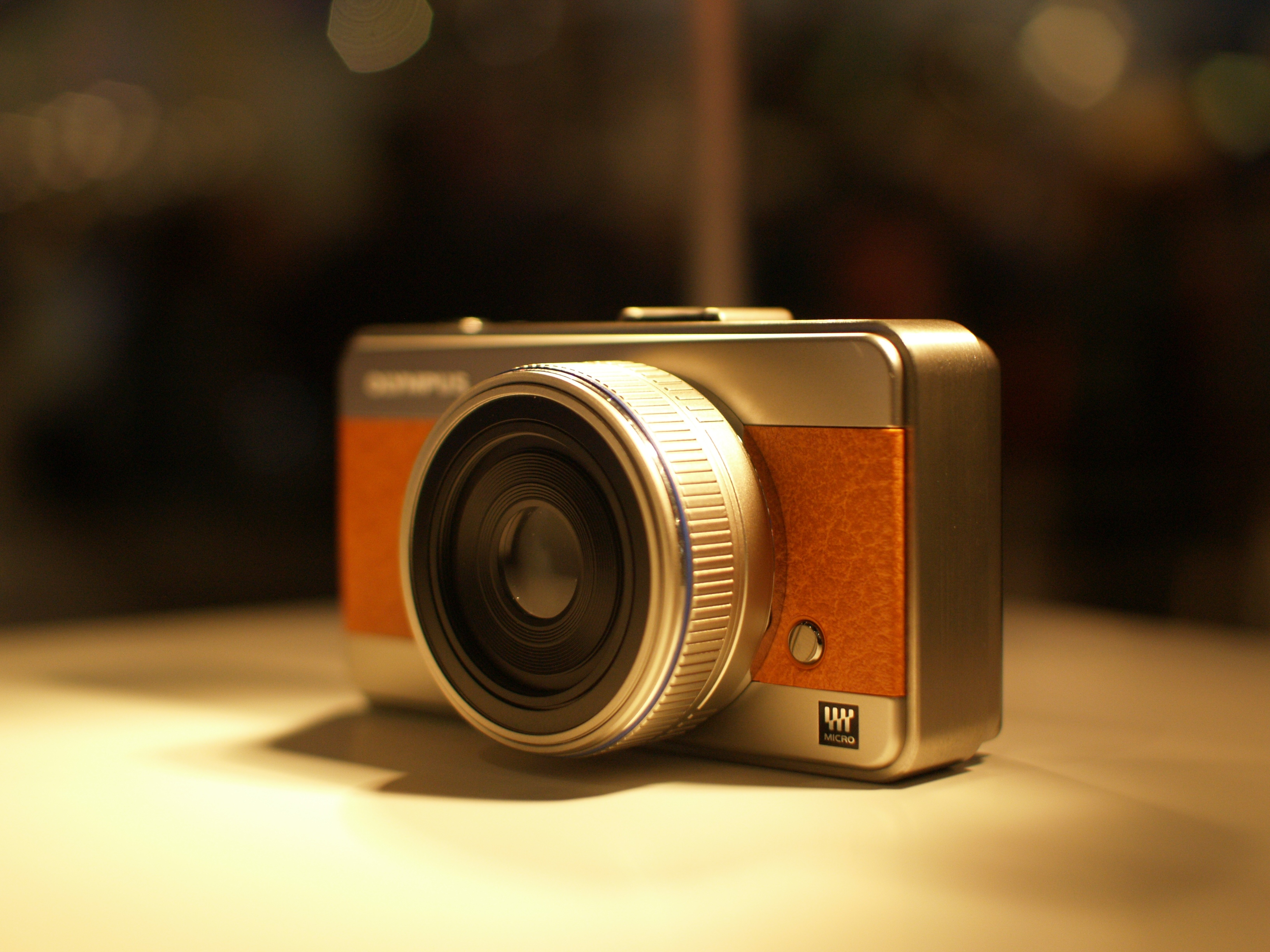 Concept of a future Micro Four Thirds camera by Olympus, shown at Photokina 2008.